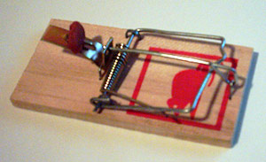 mousetrap